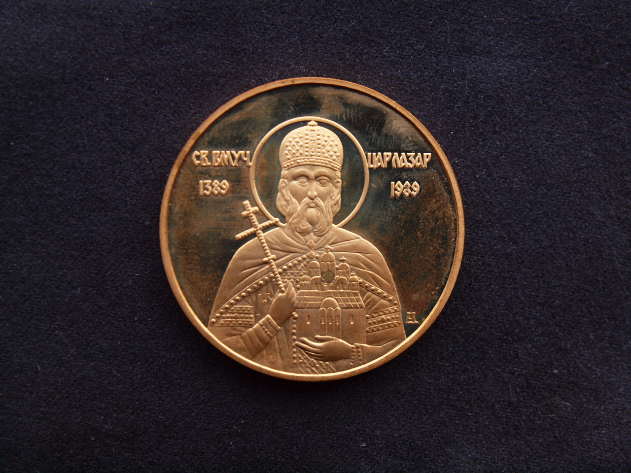 Battle of Kosovo 1989 commemorationn coin prince Lazar